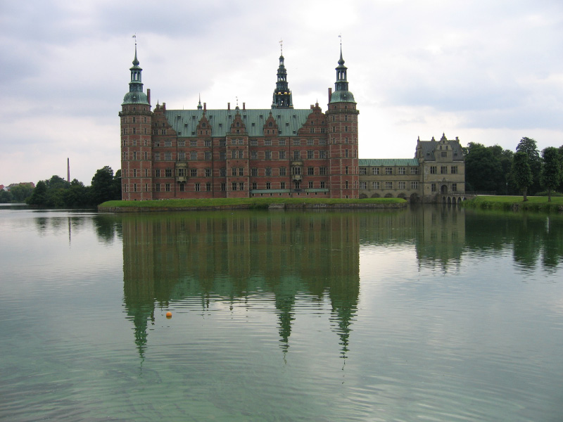 Fredriksborg Palace in Denmark. Photo taken by User:Abelson in August 2005